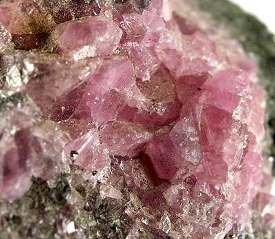 Hodgkinsonite Locality: Franklin Mine, Franklin, Franklin Mining District, Sussex County, New Jersey, USA (Locality at ) Size: 4.9 x 4.4 x 3.2 cm. Hodgkinsonite is a very rare manganese, zinc silicate found only in the Franklin Mining District of New Jersey. The sculptural franklinite with a vein of willemite matrix hosts a vein and vugs filled with sharply crystallized, pink hodgkinsonite crystals. The translucent and lustrous crystals reach 8 mm and the main crystal here is doubly terminated. These are large crystals and this is a very rich example for the species and locality. Moreover, it is a good display specimen instead of the typical chunk of ugly rock. Rarely available, this is one from an old collection sold at the Rochester Sypmosium last year (2008). Ex. Ranstrom Collection.